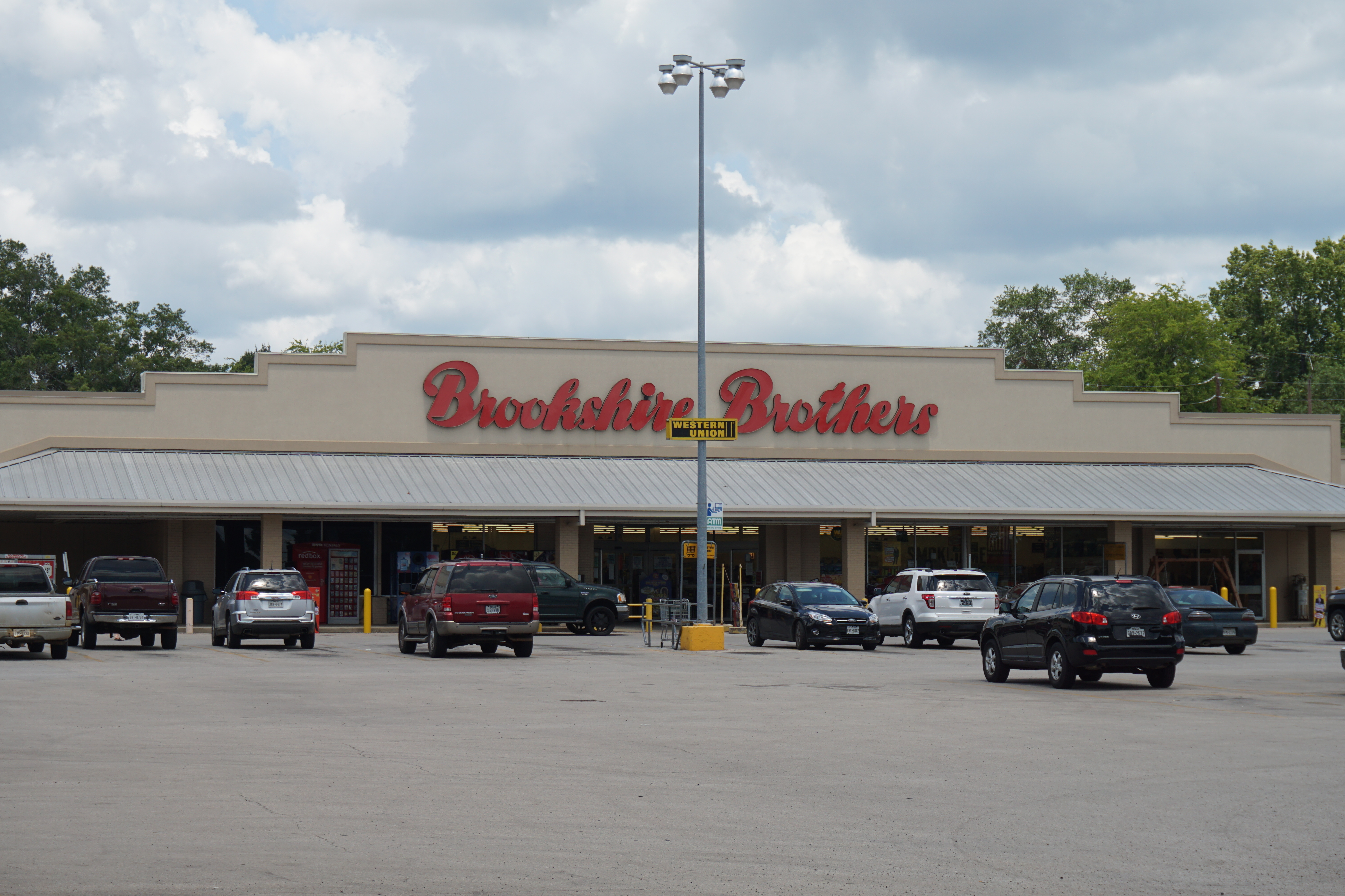 Brookshire Brothers in Carthage, Texas (United States).